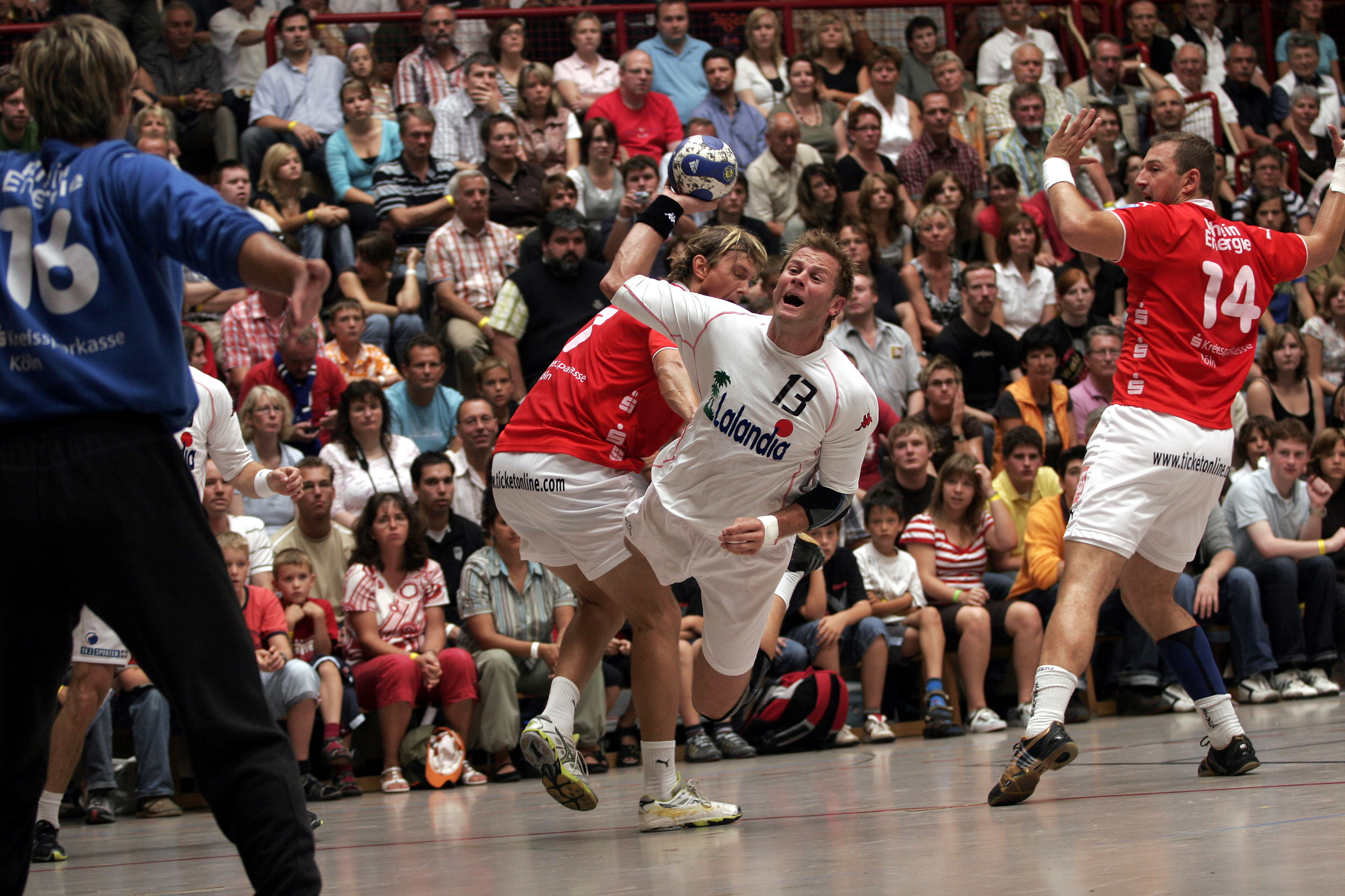 Per Thomas ("Pelle") Linders, Swedish handball player from FCK Håndbold, during the Schlecker Cup 2007 in Ehingen (Germany)